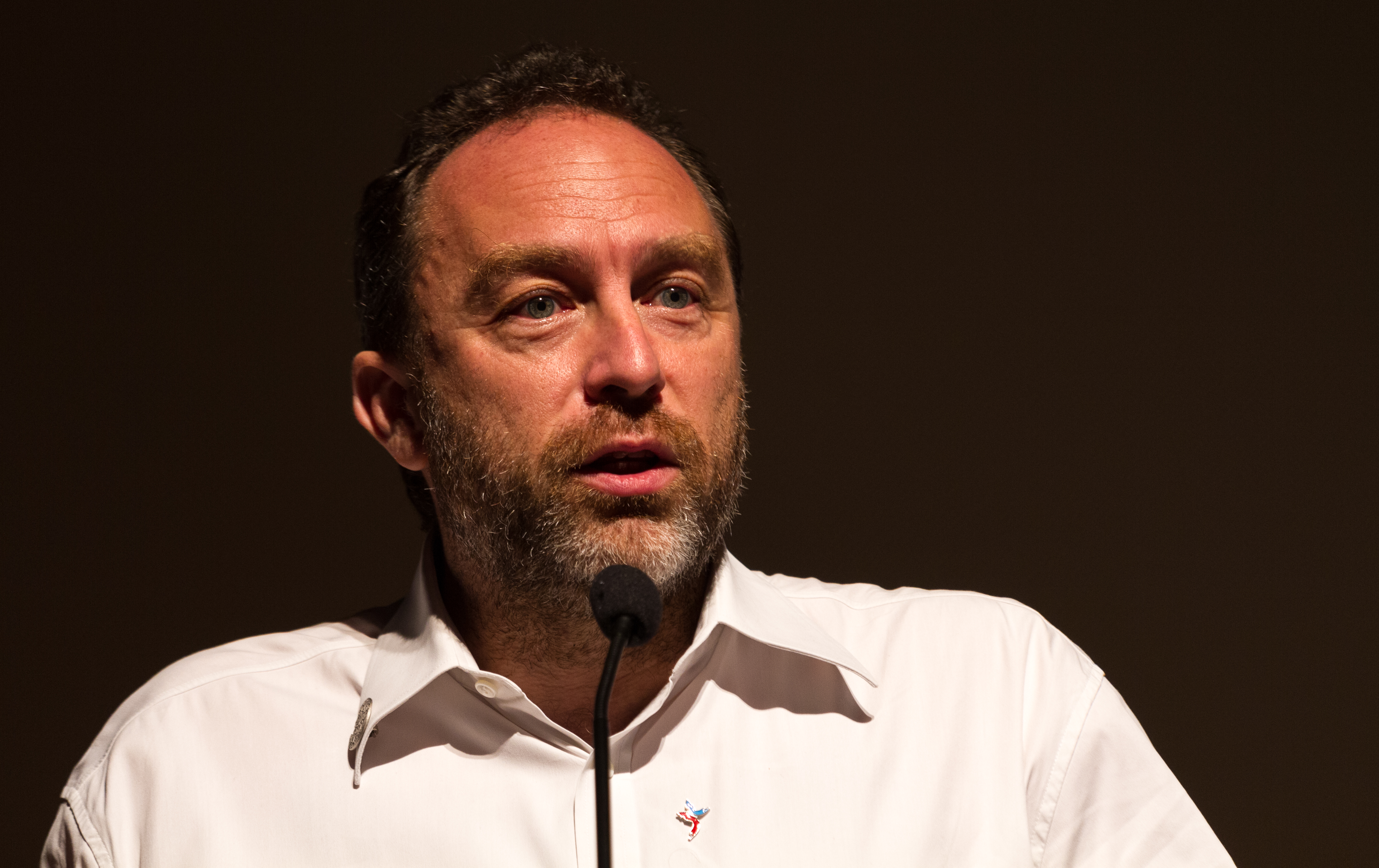 Jimmy Wales during his keynote speech "State of the Wiki" at Wikimania 2013, Hong Kong.